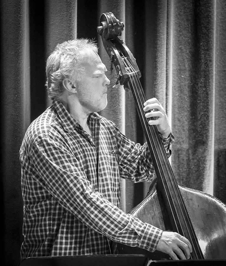 Anders Jormin at stage with Sinikka Langeland at Cosmopolite. The concert took place on 19. October 2016 in Oslo. Lineup: Sinikka Langeland (kantele) Trio Mediaeval (vocal) Arve Henriksen (trumpet) Trygve Seim (saxophone) Anders Jormin (double bass) Markku Ounaskari (drums) Trio Mediaeval is: Anna Maria Friman (vocal) Linn Andrea Fuglseth (vocal) Torunn Østrem Ossum (vocal)